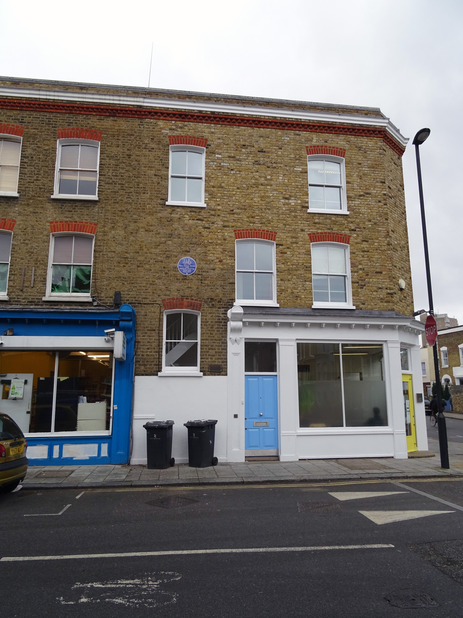 C.L.R. JAMES 1901-1989 West Indian Writer and Political Activist lived and died here